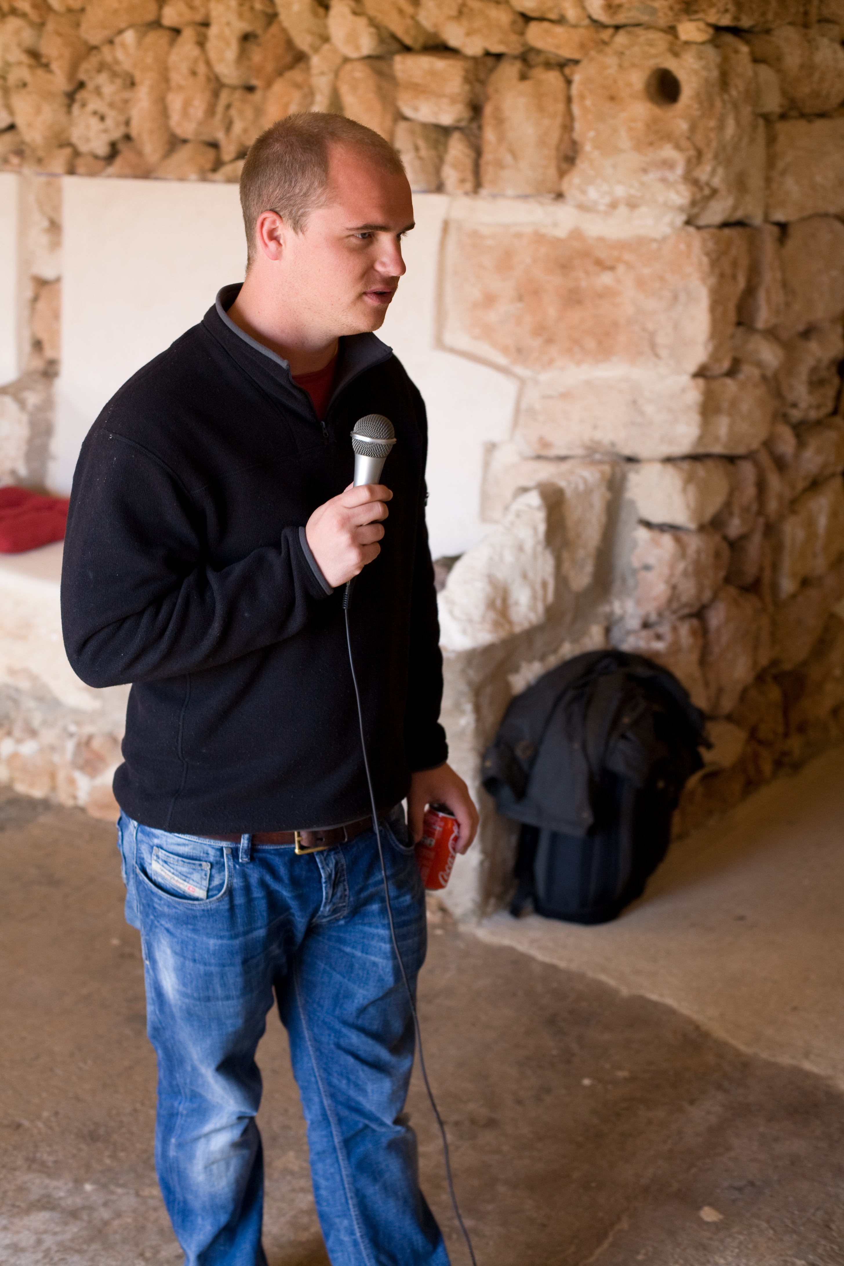 Zaryn Dentzel during Menorca Tech Talks 2008